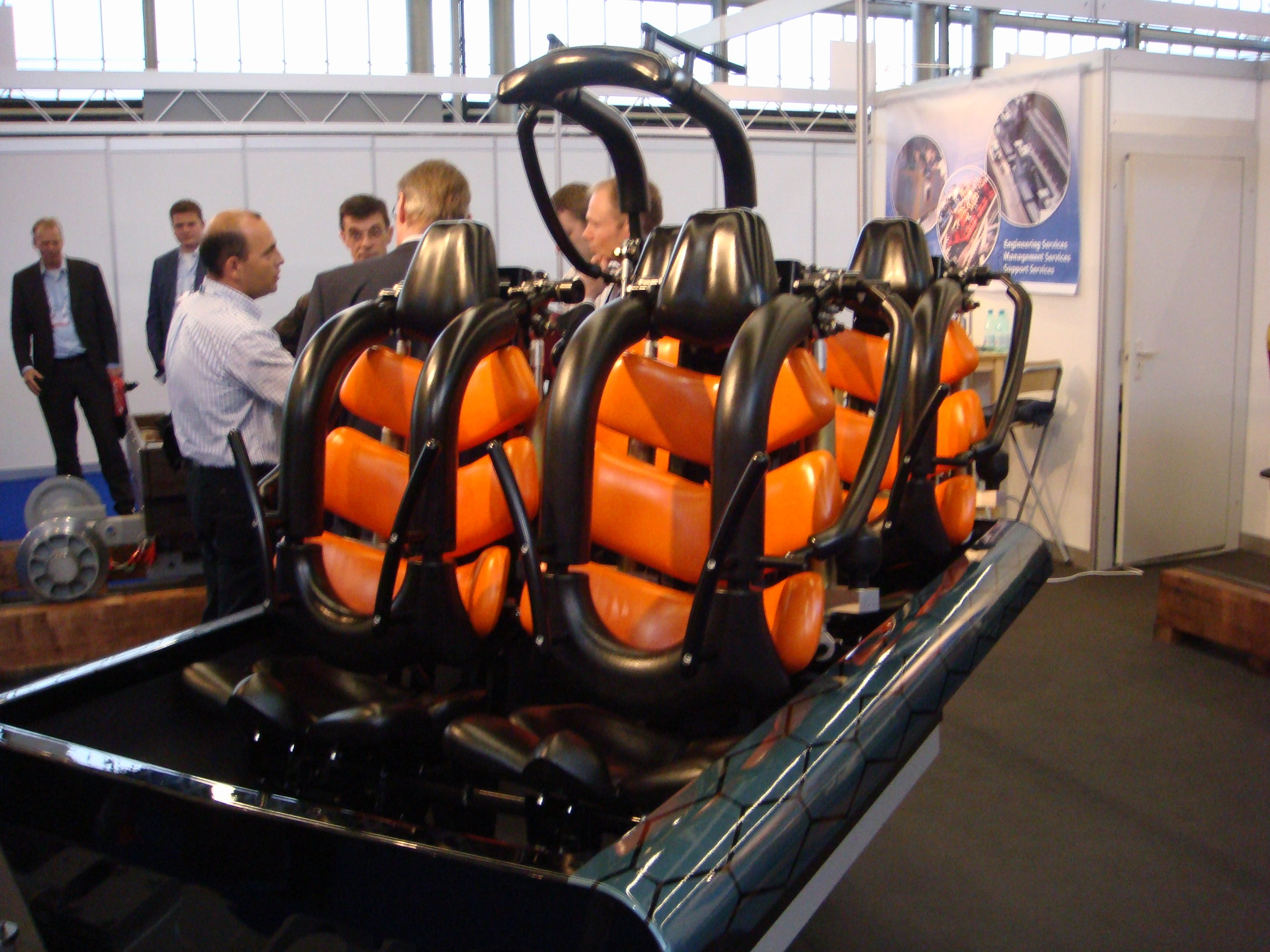 A carriage from the roller coaster train for Sea Viper at Sea World, Gold Coast, Australia. The carriage is shown at the 2009 IAAPA trade show. It is manufactured by KumbaK.